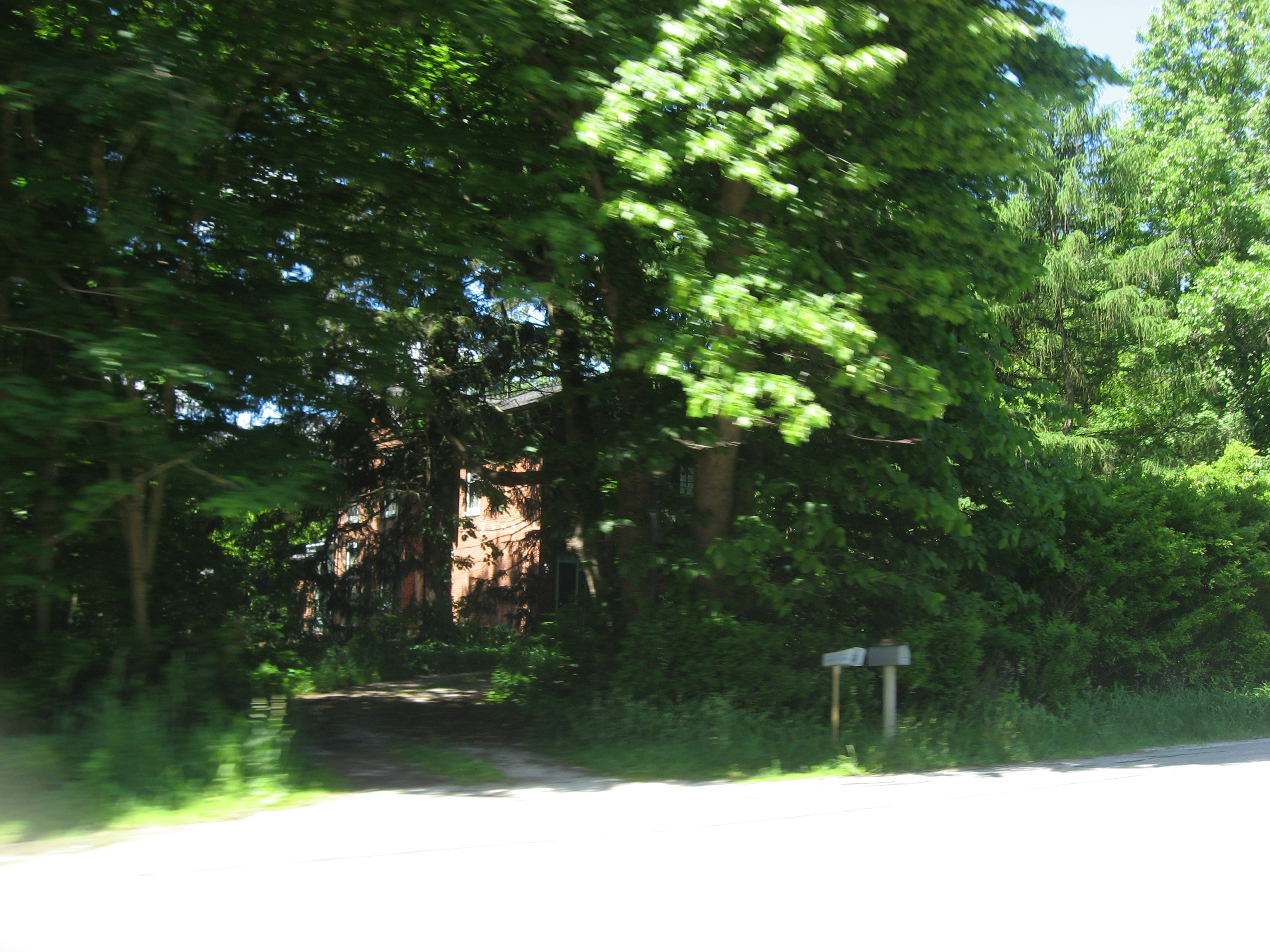 Driveway view of Pinehurst Hall, located at 3042 N. U.S. Route 35 northwest of LaPorte in Center Township, LaPorte County, Indiana, United States. Built in 1853, it is listed on the National Register of Historic Places.